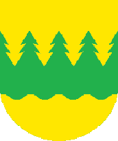 Coat of arms of Kainuu